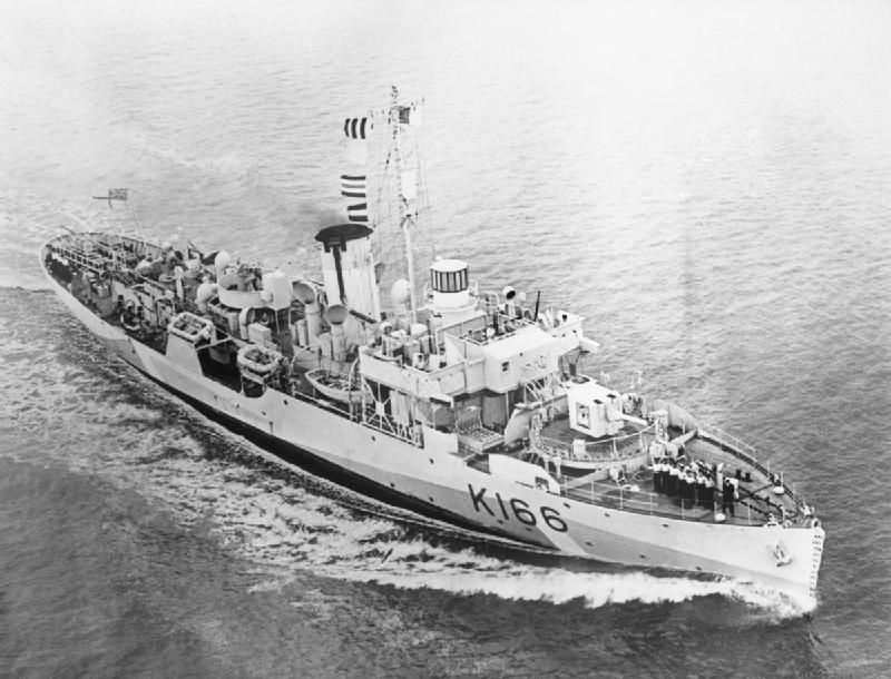 Aerial photograph of Royal Canadian Navy Flower class corvette HMCS Snowberry (K166).